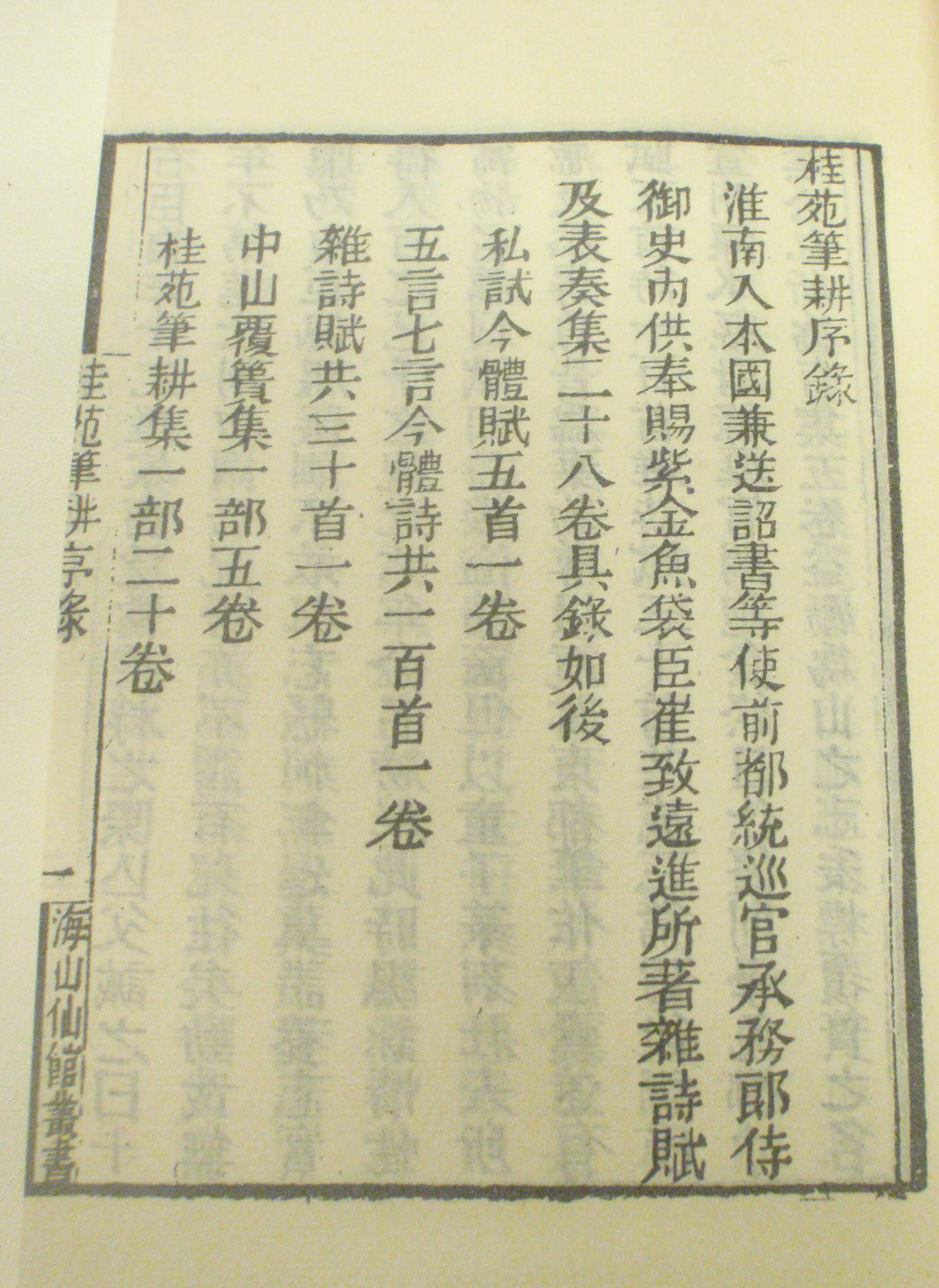 Gyeweon Pilgyeong, a collection of Choe Chiwon's writings.